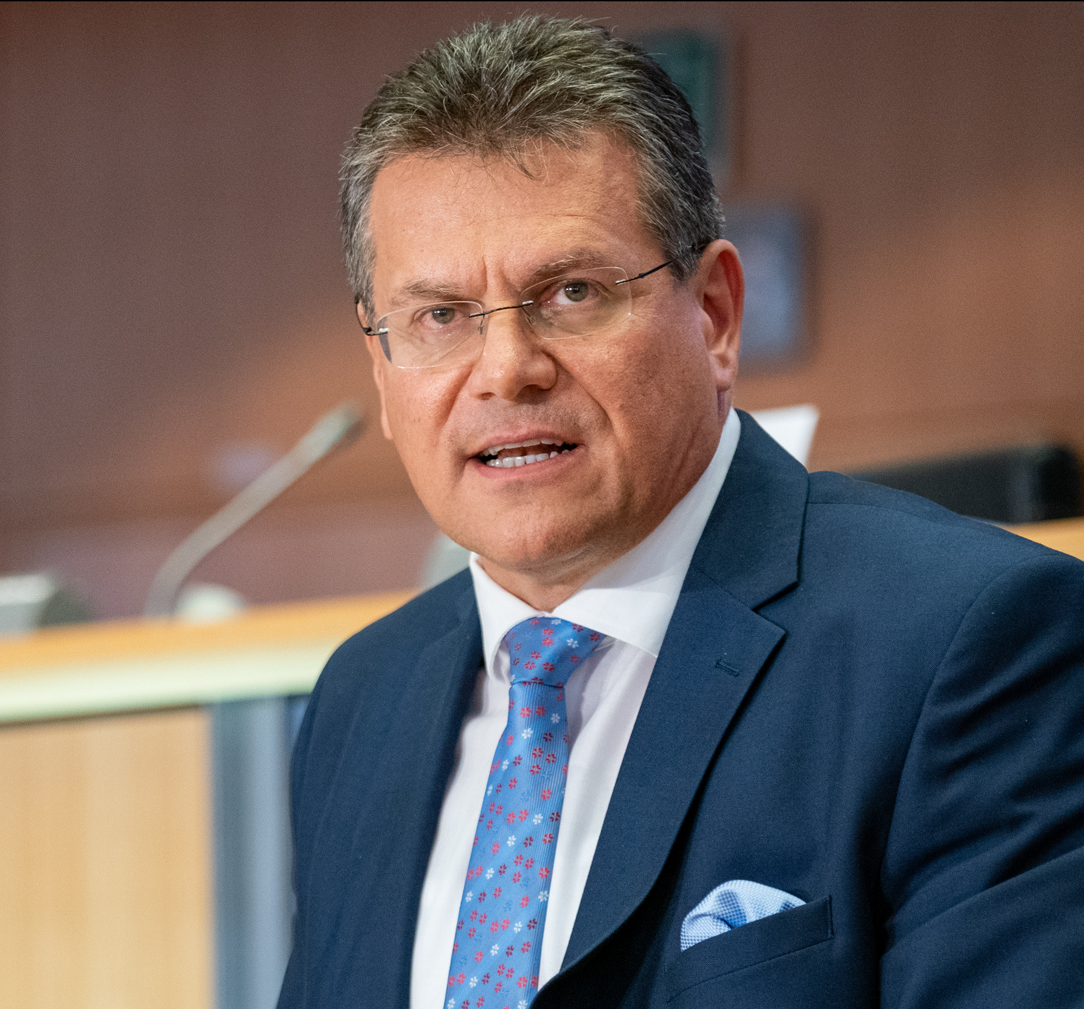 Before the European Parliament can vote the new European Commission led by Ursula von der Leyen into office, parliamentary committees will assess the suitability of commissioners-designate. On 23-26 May, more than 200,000,000 people in 28 EU countries went to the polls to elect members of the European Parliament, giving them a strong democratic mandate, including voting into office the new European Commission and examining the competencies and abilities of its commissioners-designate. Elected members of the European Parliament will also listen to their ideas and will assess their willingness to take concrete actions on the issues that Europeans care about. Each candidate commissioner is invited for a live-streamed, three-hour hearing in front of the committee or committees responsible for their proposed portfolio. The hearings will take place between Monday 30 September and Tuesday 8 October. This photo is free to use under Creative Commons license CC-BY-4.0 and must be credited: "CC-BY-4.0: © European Union 2019 – Source: EP". No model release form if applicable. For bigger HR files please contact: webcom-flickr(AT)